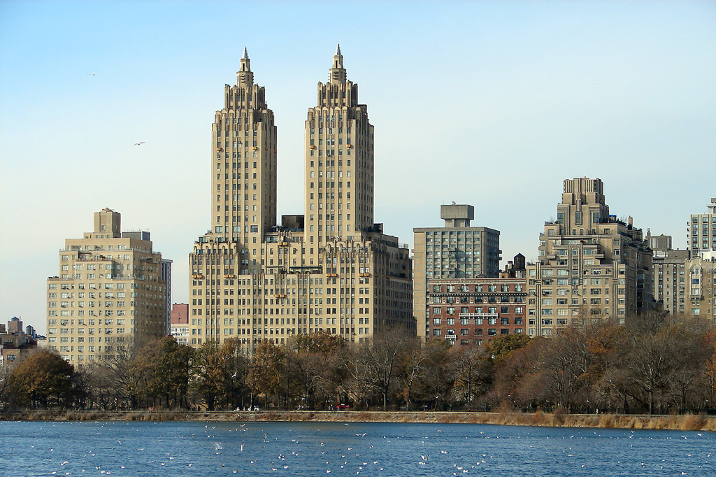 The famous two-towers building in front of the Reservoir in Central Park.